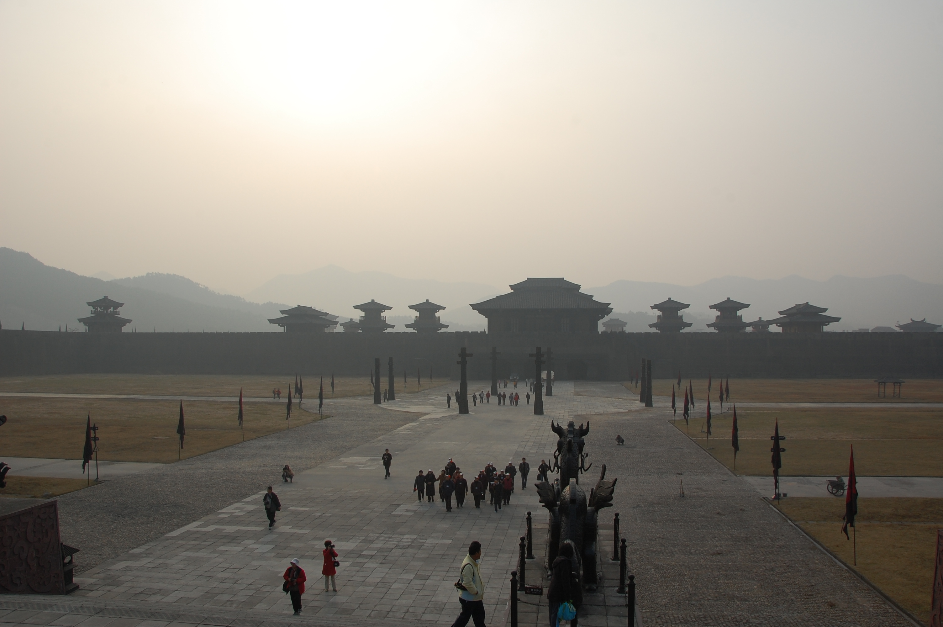 Replica of Emperor Qin Palace Hengdian World Studios Native name横店影视城Parent institution横店影视城有限公司Location东阳市横店镇 ChinaCoordinates29° 08′ 32″ N, 120° 18′ 29″ E Established1990sWebsite control : Q740442 VIAF: 141144680